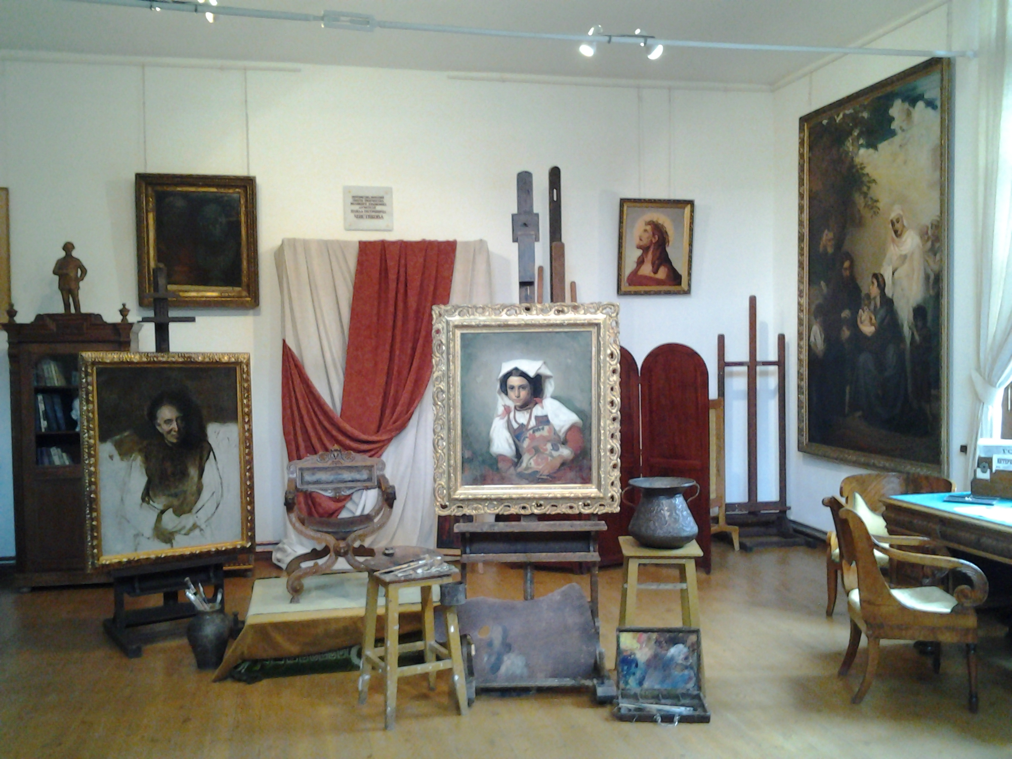 Pavel Chistyakov Studio in his home which is now a museum in Pushkin, Russia